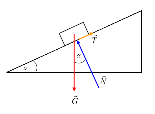 Forces on a body placed on inclined plane